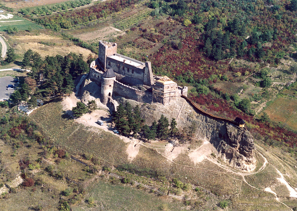 Castle - Boldogkő - Hungary - Europe